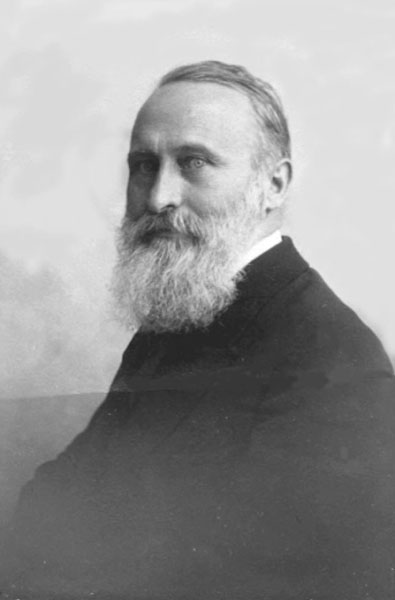 Prof. Augusto Mancini